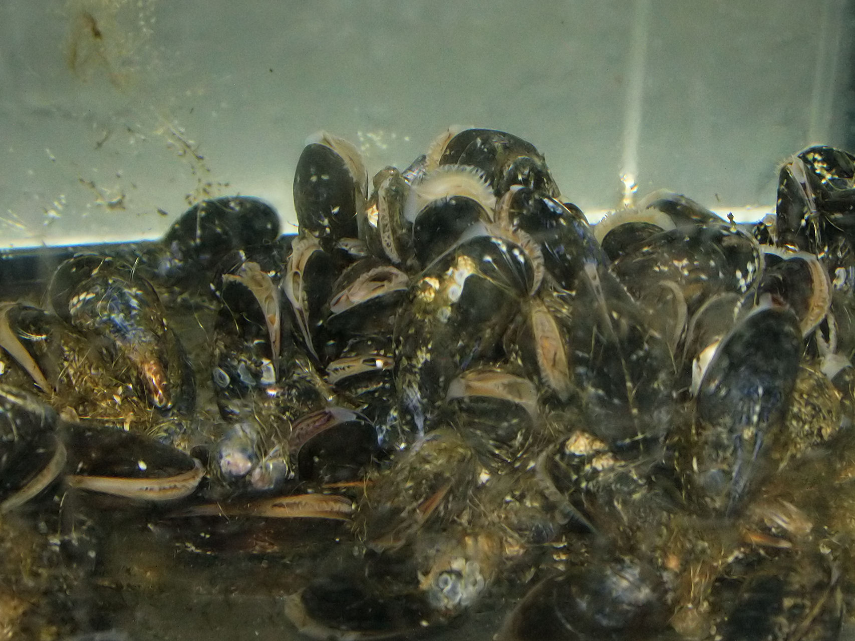 Blue Mussels from the Belgian part of the North Sea. Aquarium photograph